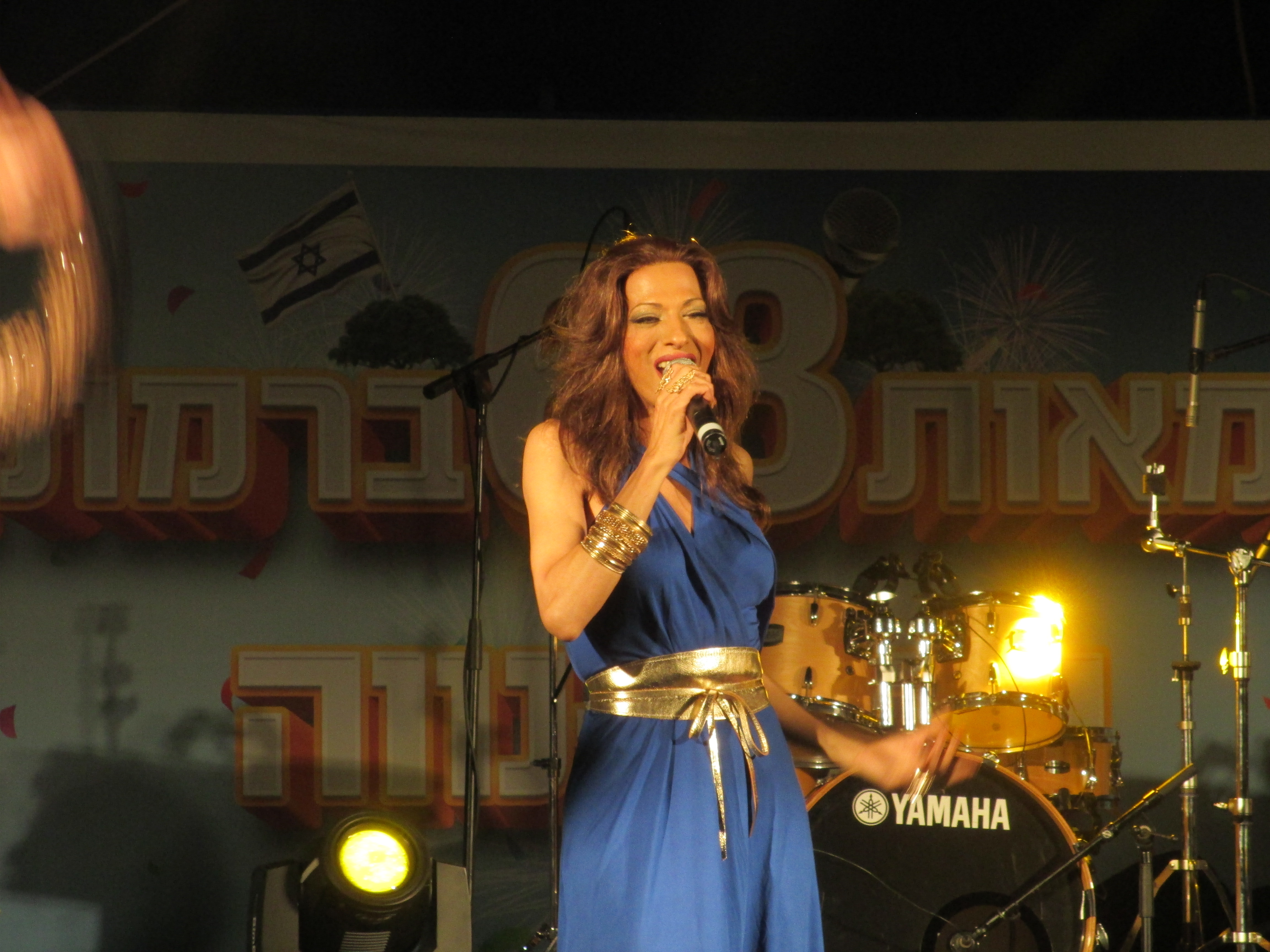 Dana International in Ramat Gan